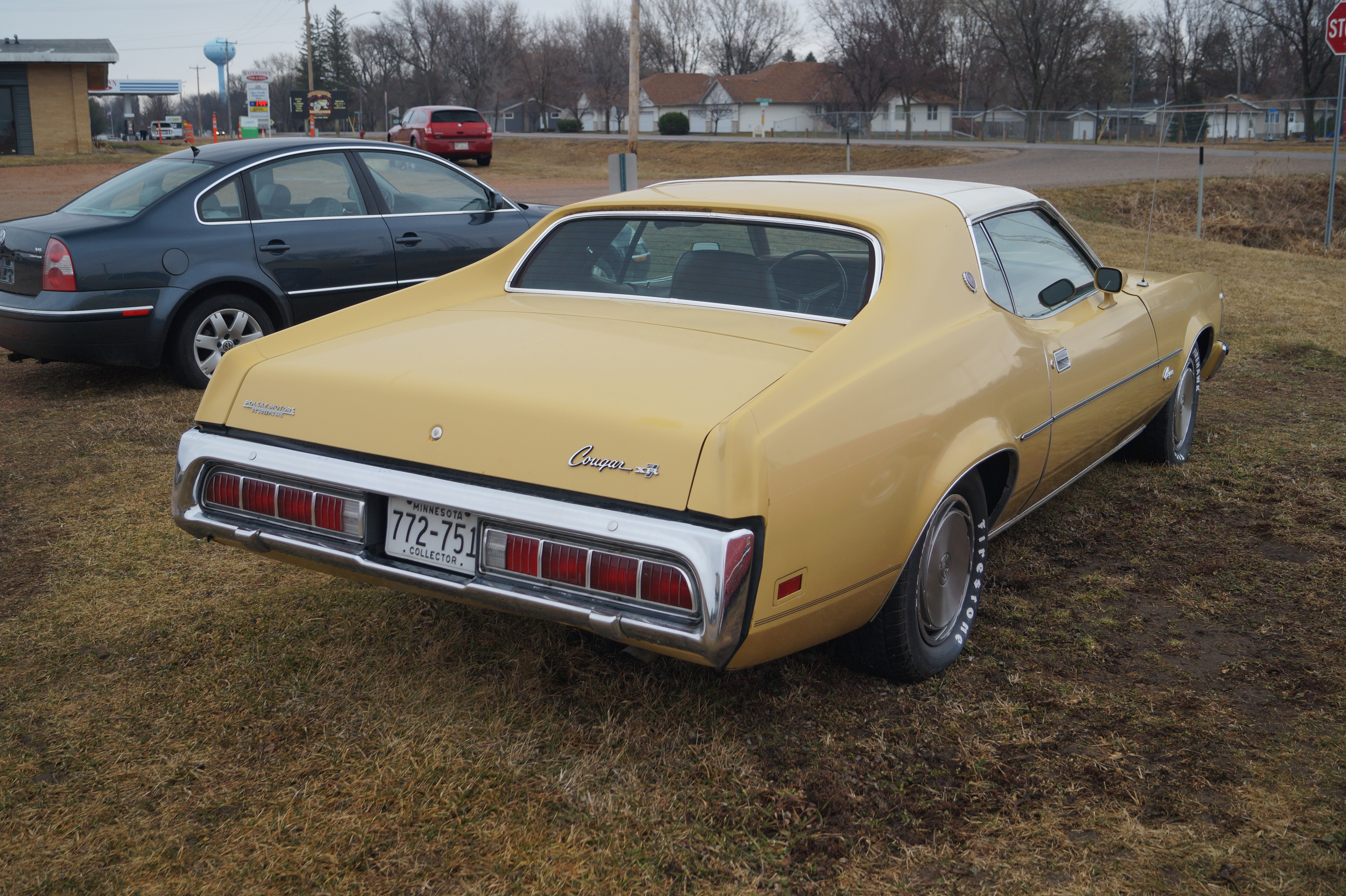 Hooked on Classics Watertown, Minnesota Click here for more car pictures at my Flickr site.